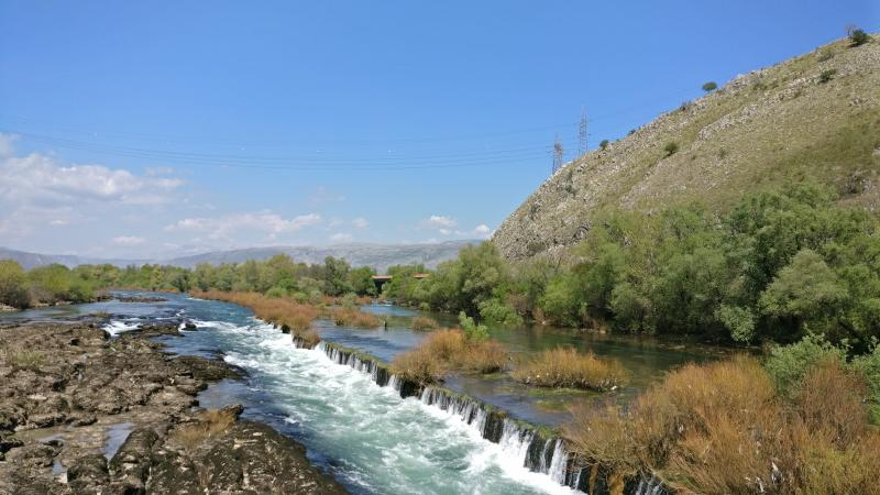 River Buna estuary